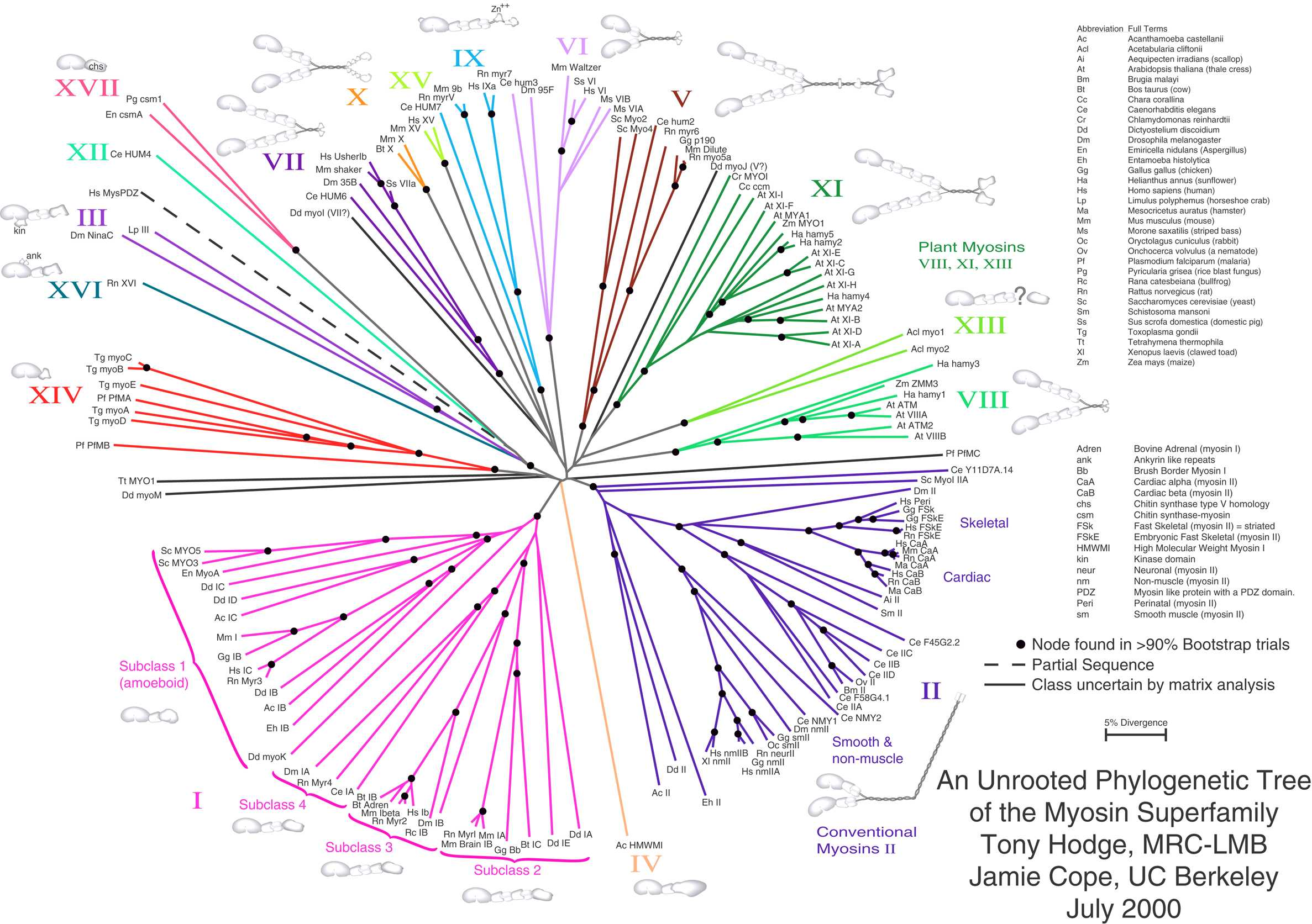 MyosinUnrootedTree